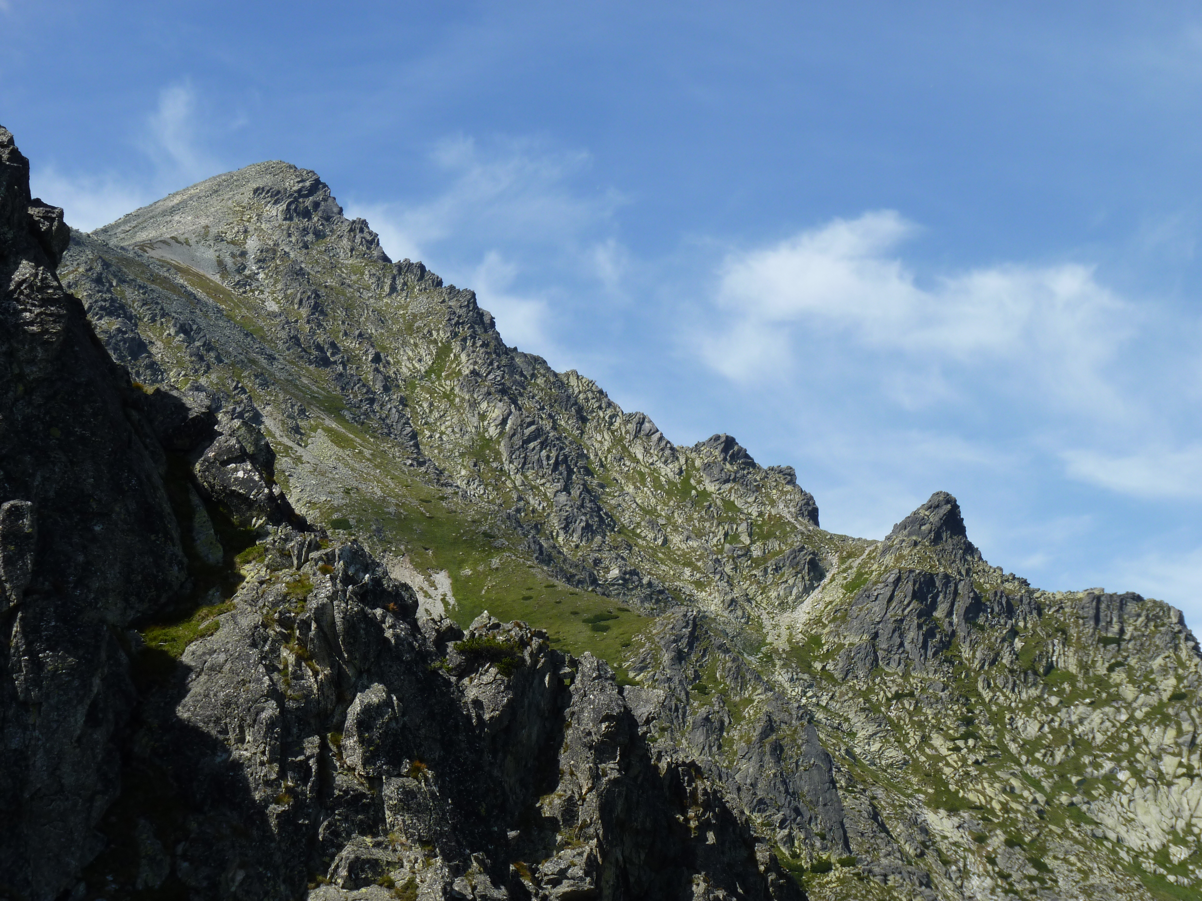 Slavkovský štít, Tatra Mountains, Slovakia